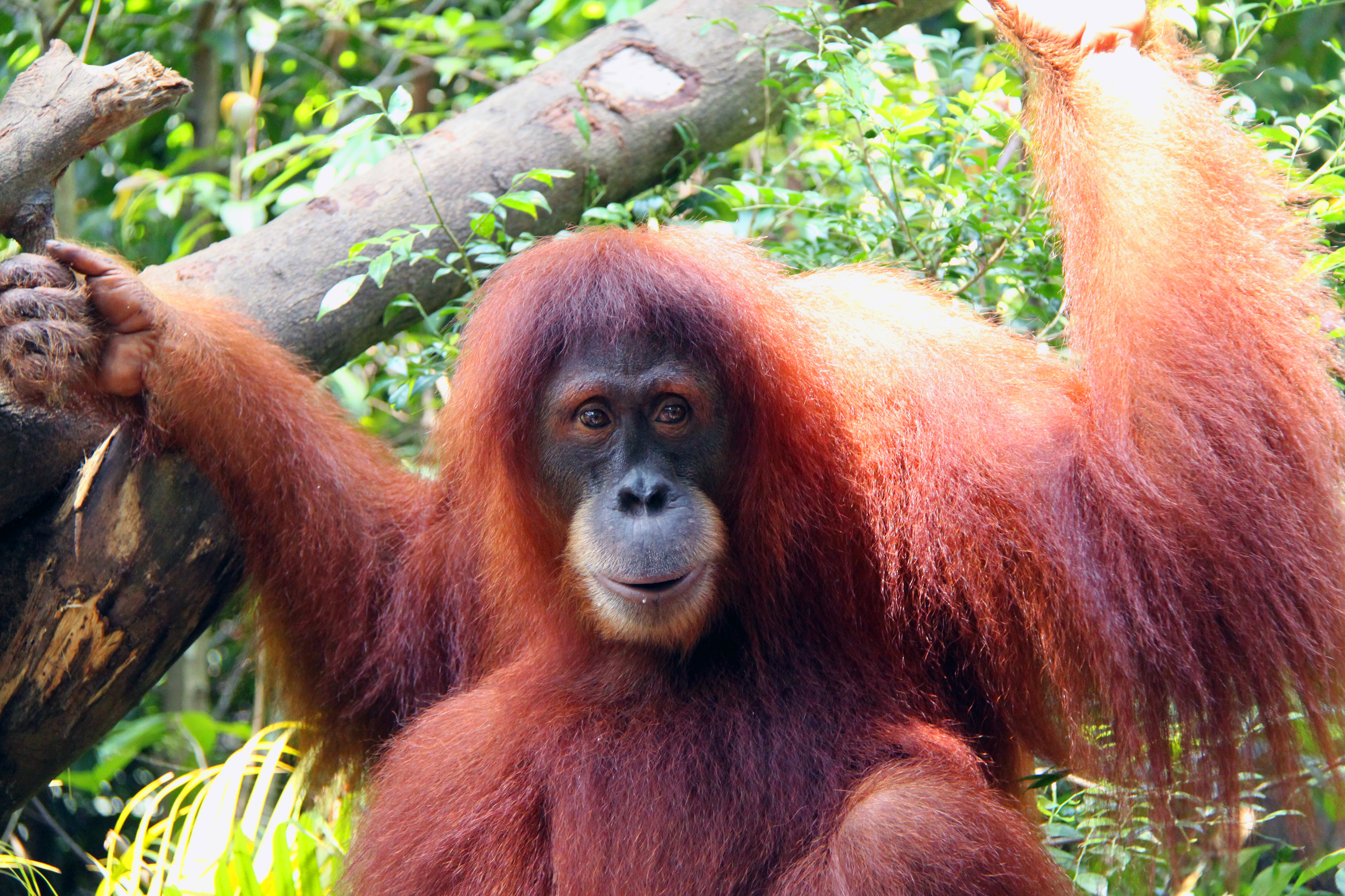 Orang Utan at the Singapore Zoo, 2009